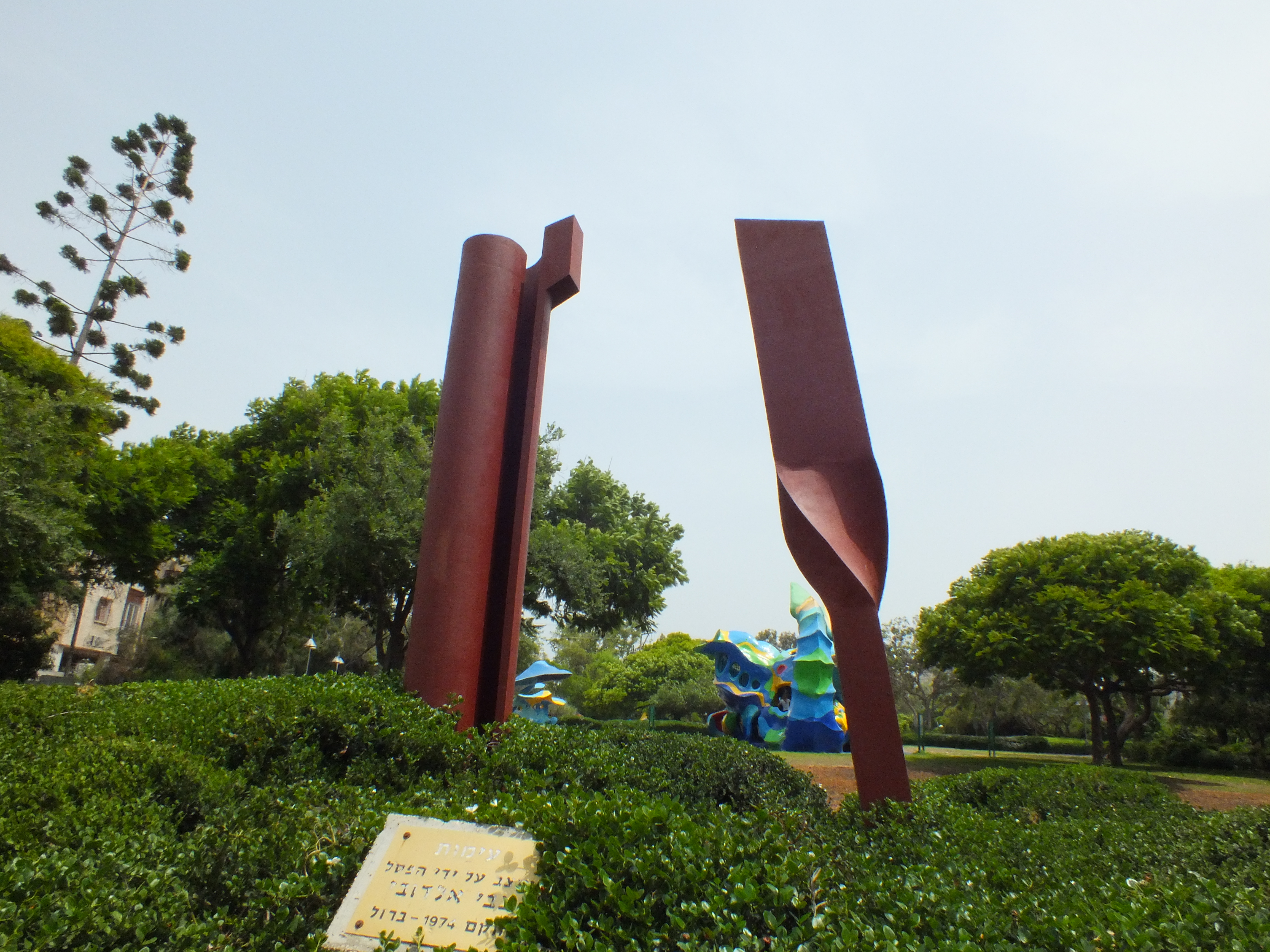 Confrontation (1974) - Zvi Aldouby.